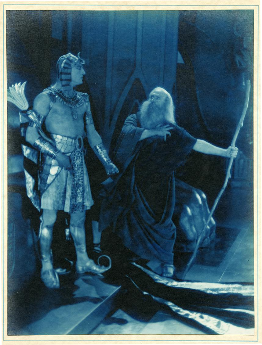 Title: Scene from Cecil B. DeMille's The Ten Commandments Repository: California Historical Society Digital object ID: PC-RM-Curtis_028 Call Number: PC-RM-Curtis Collection: Photographs of the filming of Cecil B. DeMille's The Ten Commandments Photographer: Curtis, Edward S. Date: 1923 Physical description: Photographic print on printed mounts: silver gelatin, blue-tinted; 38 x 50 cm. General notes: Mounts imprinted: The Edward S. Curtis Studio 668 South Rampart, Los Angeles. Contains images of actors playing scenes in, and exterior and interior sets from, Cecil B. DeMille's The Ten Commandments. Most photos show Theodore Roberts as Moses, and several show Charles de Rochefort (Charles de Roche) as Ramses. Includes group scenes in the dunes, near or in the ocean, and on interior sets. Filmed at Guadalupe-Nipomo Dunes in Santa Barbara County, California. Preferred citation: Scene from Cecil B. DeMille's The Ten Commandments, Photographs of the filming of Cecil B. DeMille's The Ten Commandments, PC-RM-Curtis, courtesy, California Historical Society, PC-RM-Curtis_028.